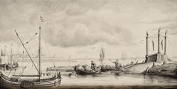 Gallowfield at Volewijk near Amsterdam